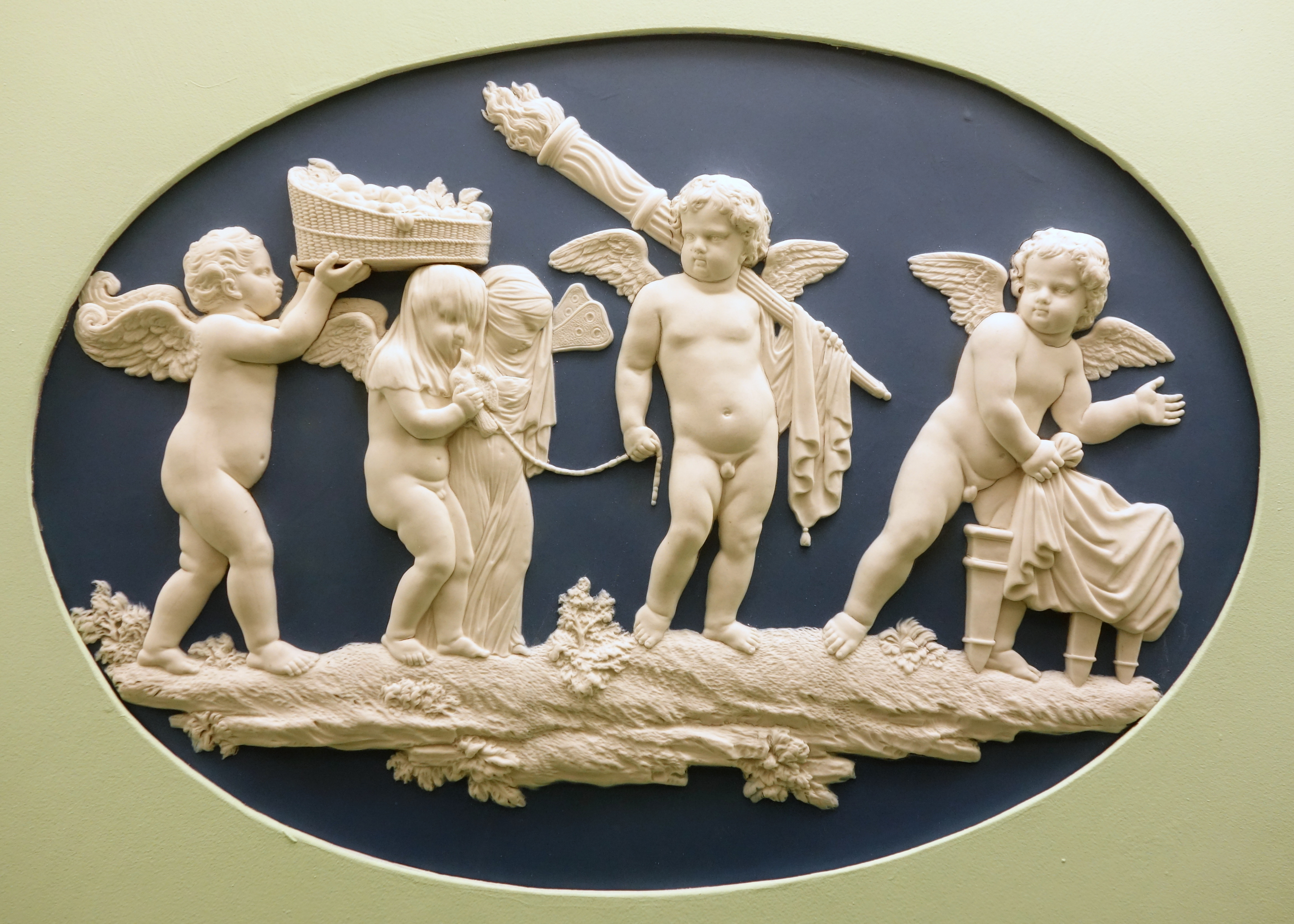 Exhibit in the Brooklyn Museum - Brooklyn, New York, USA. This artwork is in the public domain because the artist died more than 70 years ago.